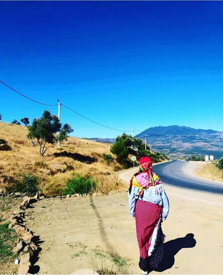 Chefchaouen Road in Morocco This is an image with the theme "Africa on the Move or Transport" from: Morocco